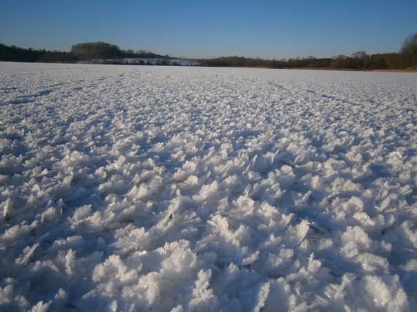 Возера ў зімку